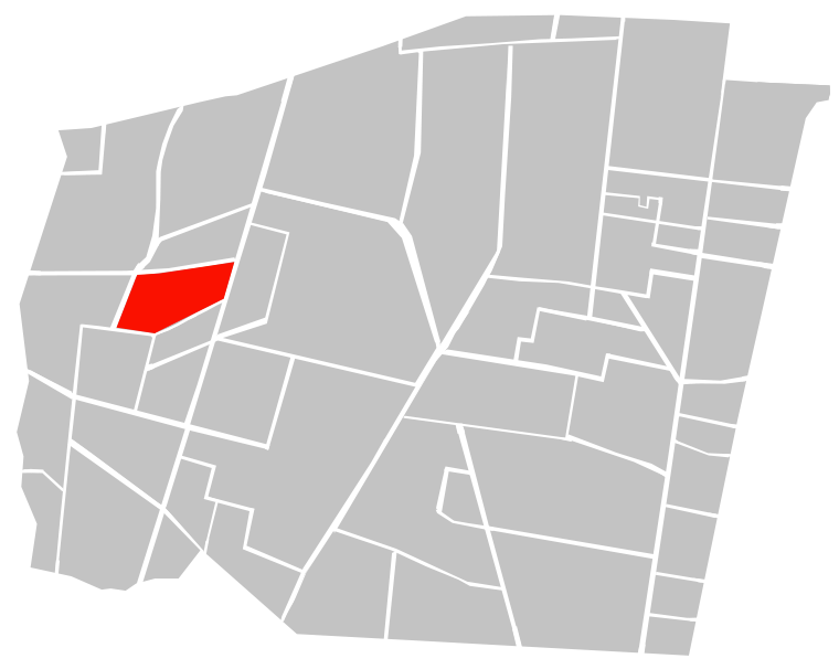 Map of Delegación Benito Juárez in Mexico City, with Ciudad de los Deportes highlighted in red